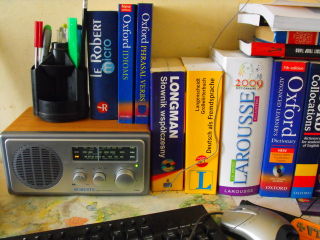 Roberts Radio